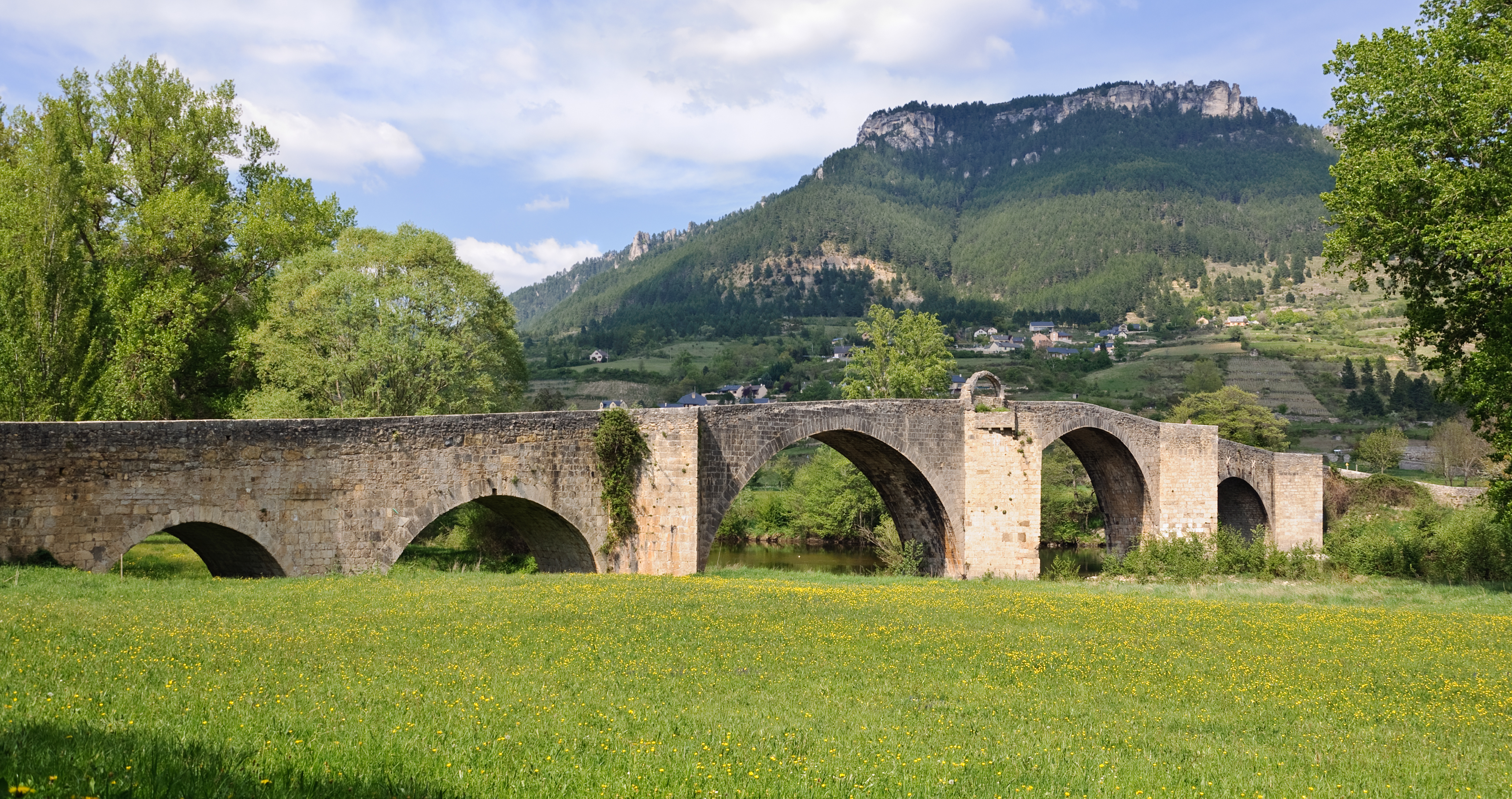 The bridge of Quézac, seen from the left bank of the Tarn river, Lozère, France. .